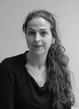 Portrait of Simone Rossmann (Designer)